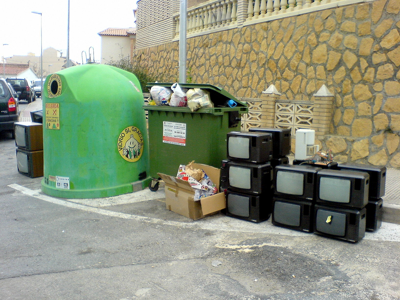 Representación conceptual/artística del neologismo «Telebasura» definido por la Real Academia Española como «conjunto de programas televisivos de contenidos zafios y vulgares».